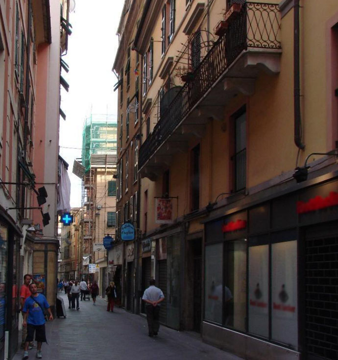 La Spezia Via del Prione